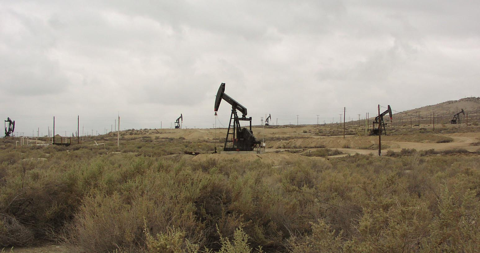 Active oil wells on the Buena Vista Field: photo by me, May 2008; GFDL